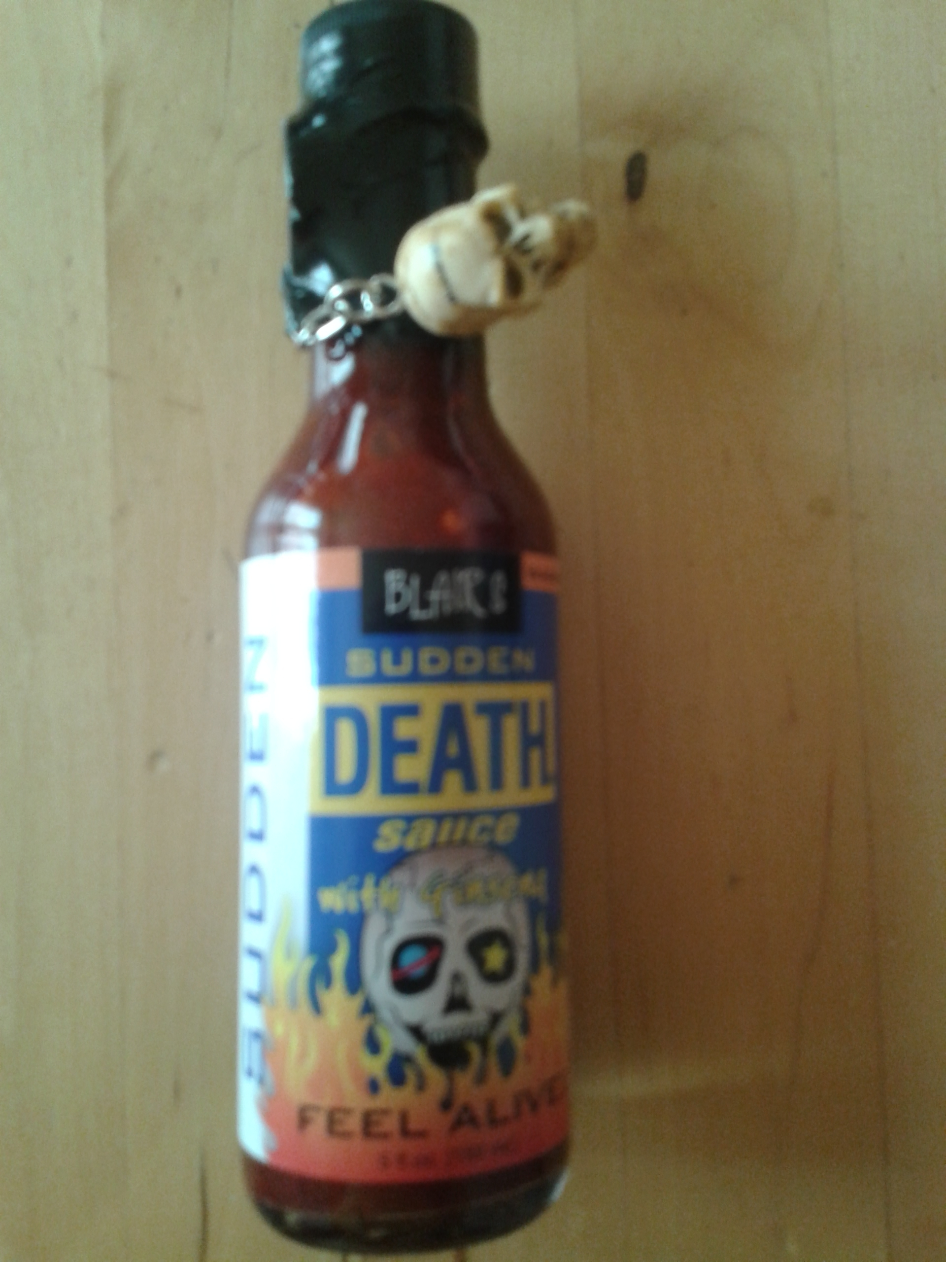 Blair´s Death Sauce Bottled